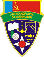 Coat of Arms Alexandrovsk-Sakhalinsky city and Alexandrovsk-Sakhalinsky district of Sakhalin oblast, Russia